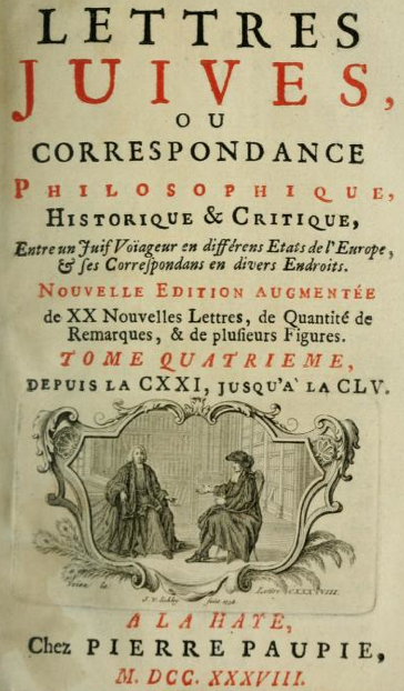 Title page of volume 4 of d'Argens' "Jewish Spy"